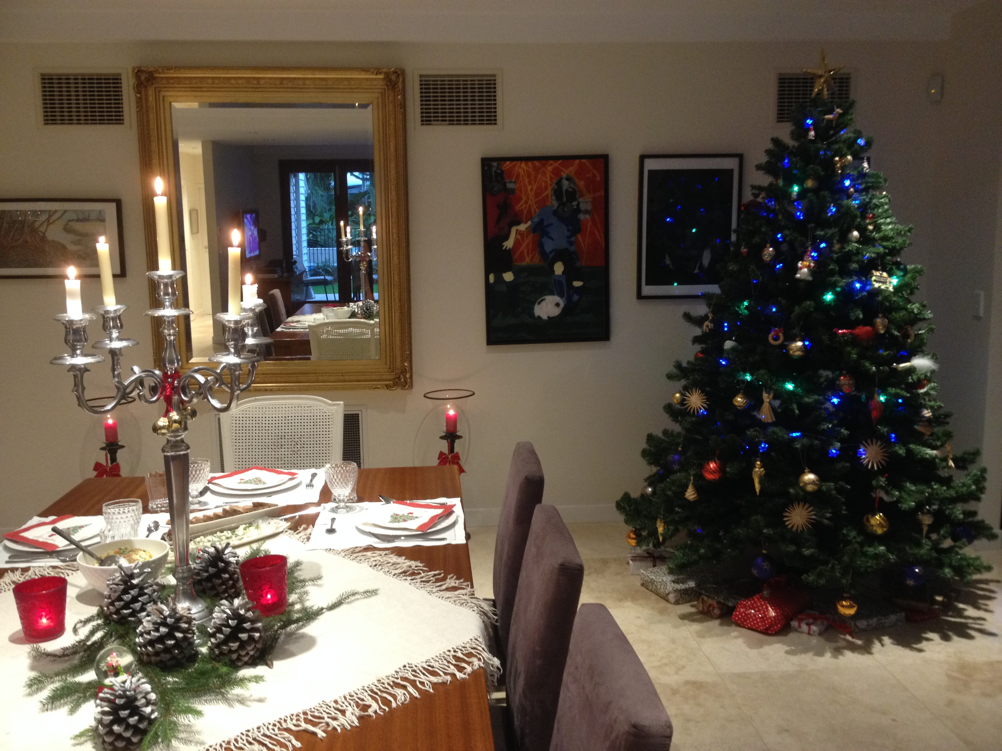 Table setup for Christmas Eve dinner and Christmas tree in Brisbane, Australia in 2013